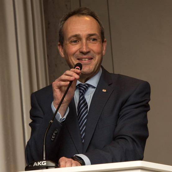 Senator Lyndon Farnham, Jersey 2017